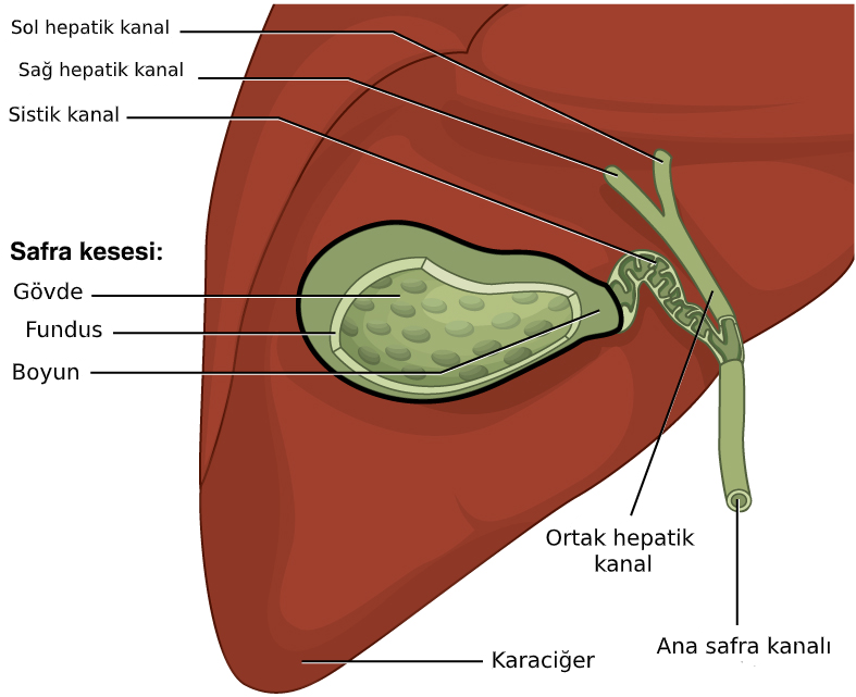 Illustration from Anatomy & Physiology, Connexions Web site. [1], Jun 19, 2013.